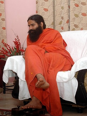 Swami Ramdev